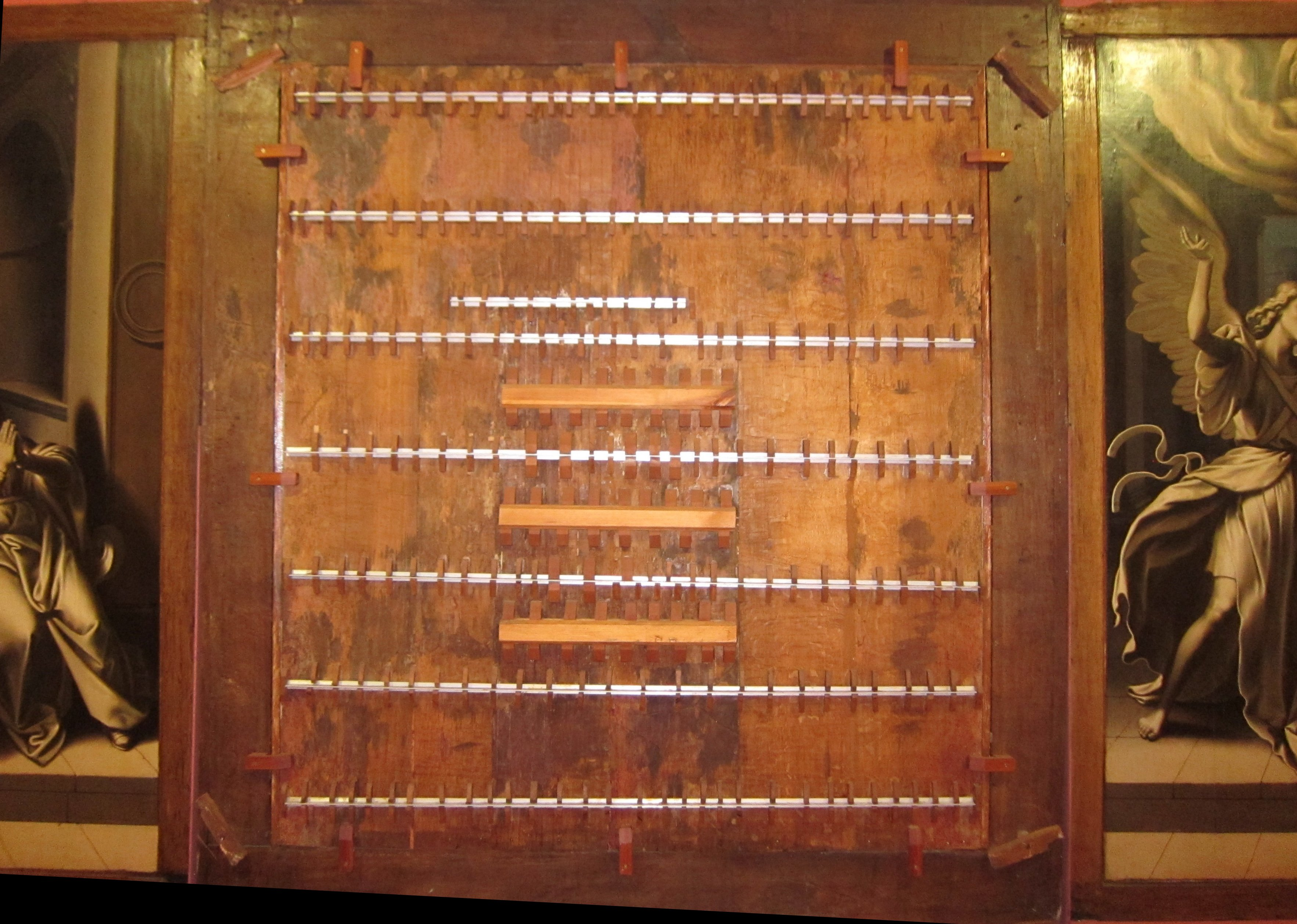 Cradled painting, center panel of triptych by Pieter Coecke van Aelst in the Museo Municipal de Bellas Artes, Santa Cruz de Tenerife